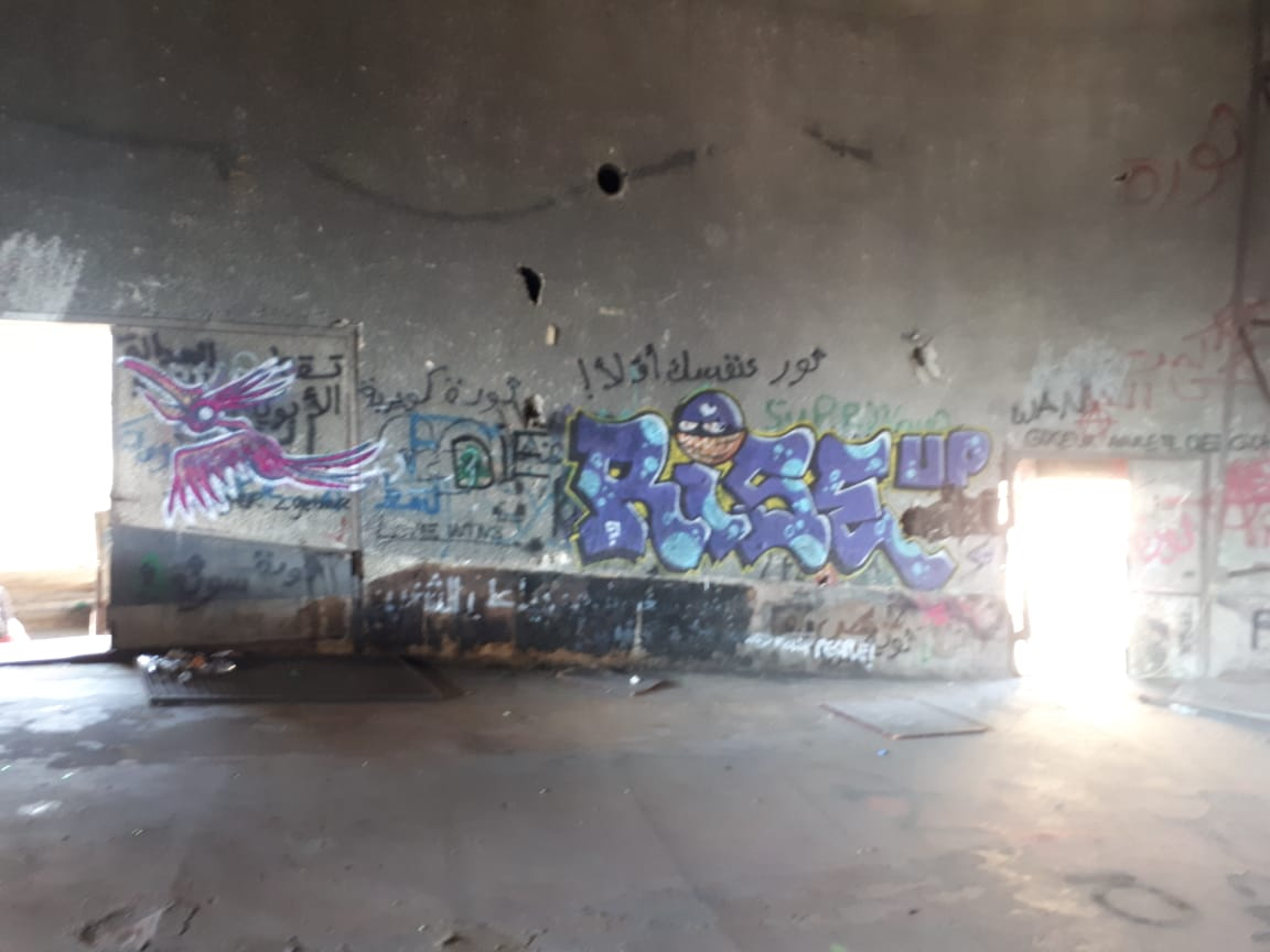 "Rise" - Graffiti at the Ring Road bridge, Beirut